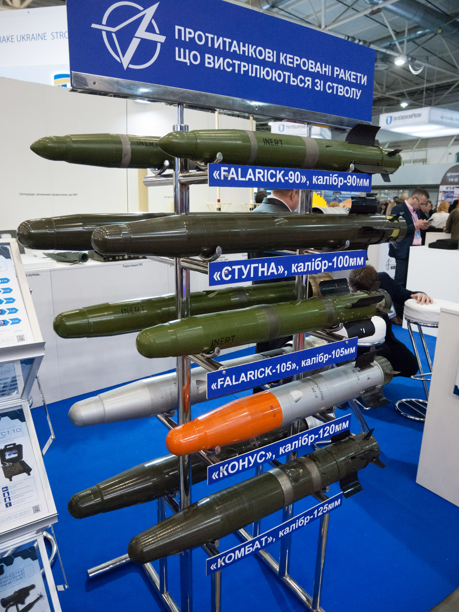 "Luch" guided missiles (Ukraine)